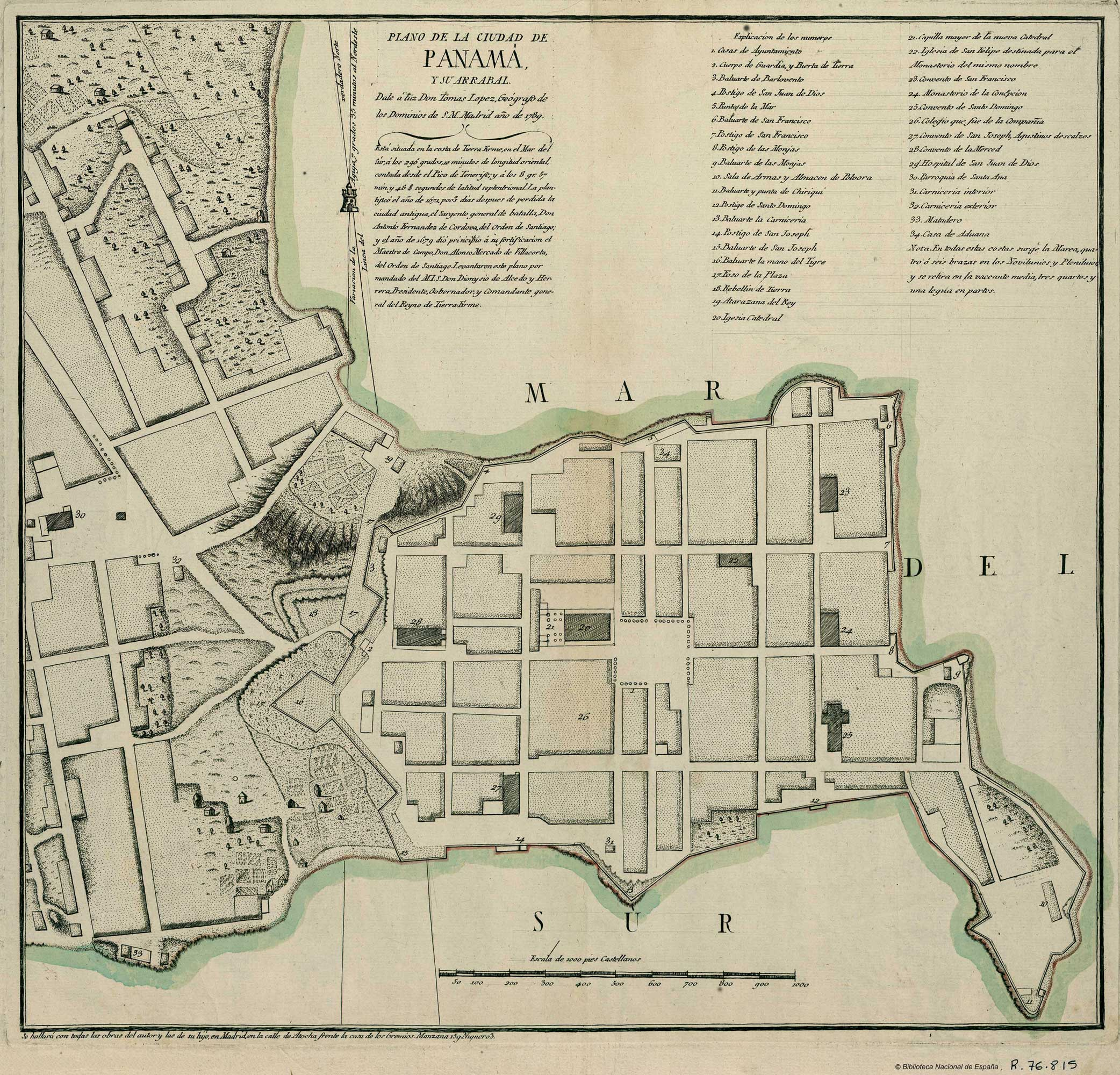 Map of Panama City and its suburbs.